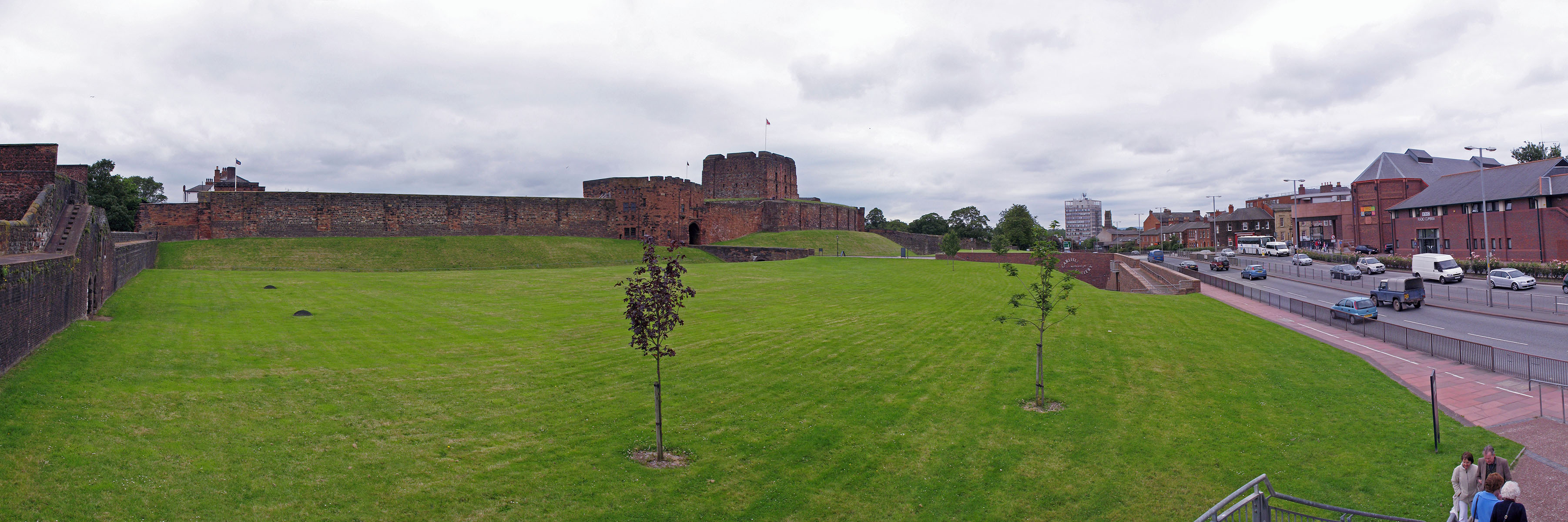 Carlisle Castle